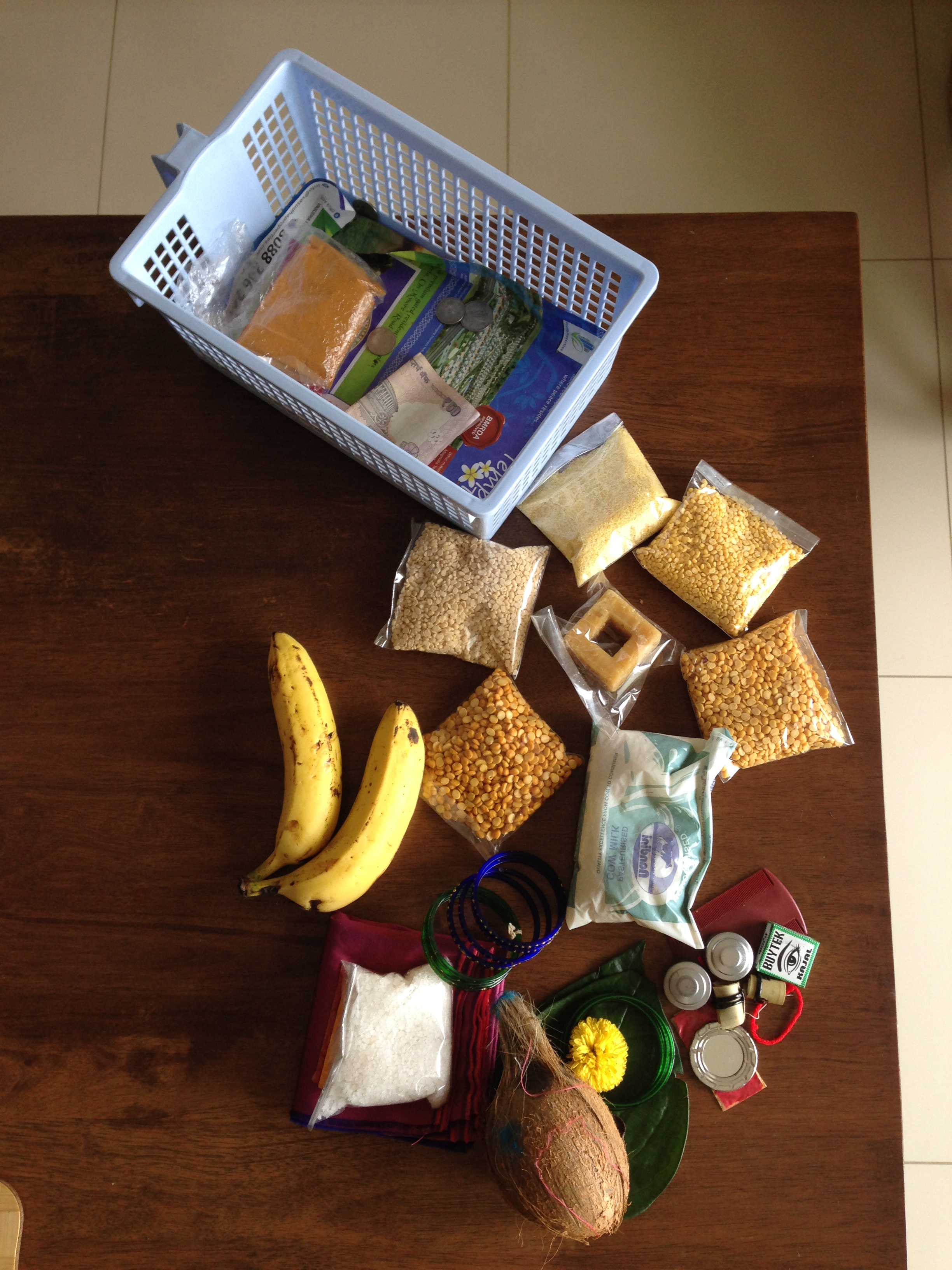 Gowri Habba In the Gowri Baagna there are provisions as per protocol. The quantity in modern days is small, but even now in rural areas, mothers send many kilograms of each item to their married daughters, especially in the first year after marriage. The items are 5 types of split lentils without husk, typically urad dal (vigna mungo), moong dal (vigna radiata), toor dal (cajanus cajan), and chana dal / split fried chickpea (Cicer arietinum); jaggery, salt, raw rice, and one or more types of fruit, usually banana, apple, sweetlime, rarely custard apple, guava pomegranate, and sapota. other fruit like grapes and melons are not used (as per protocol). A brand new saree is also included in this package as a gift. Gifts for husband or male children of receiver are not included in this package. They may be given on the consecutive day on occasion of Ganesha Chaturthi.